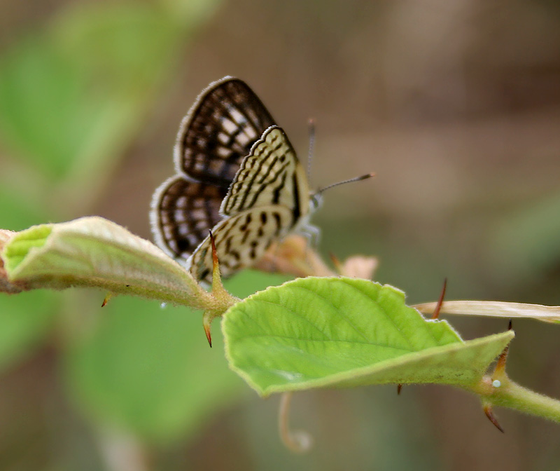 Rounded Pierrot Tarucus nara in Hyderabad , India.